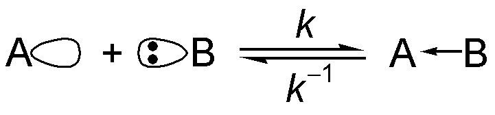 Description: Equilibrium between Lewis acid-base and resulting complex. Source = Selfmade. Date = 1 July 2006. Made with ChemDraw.